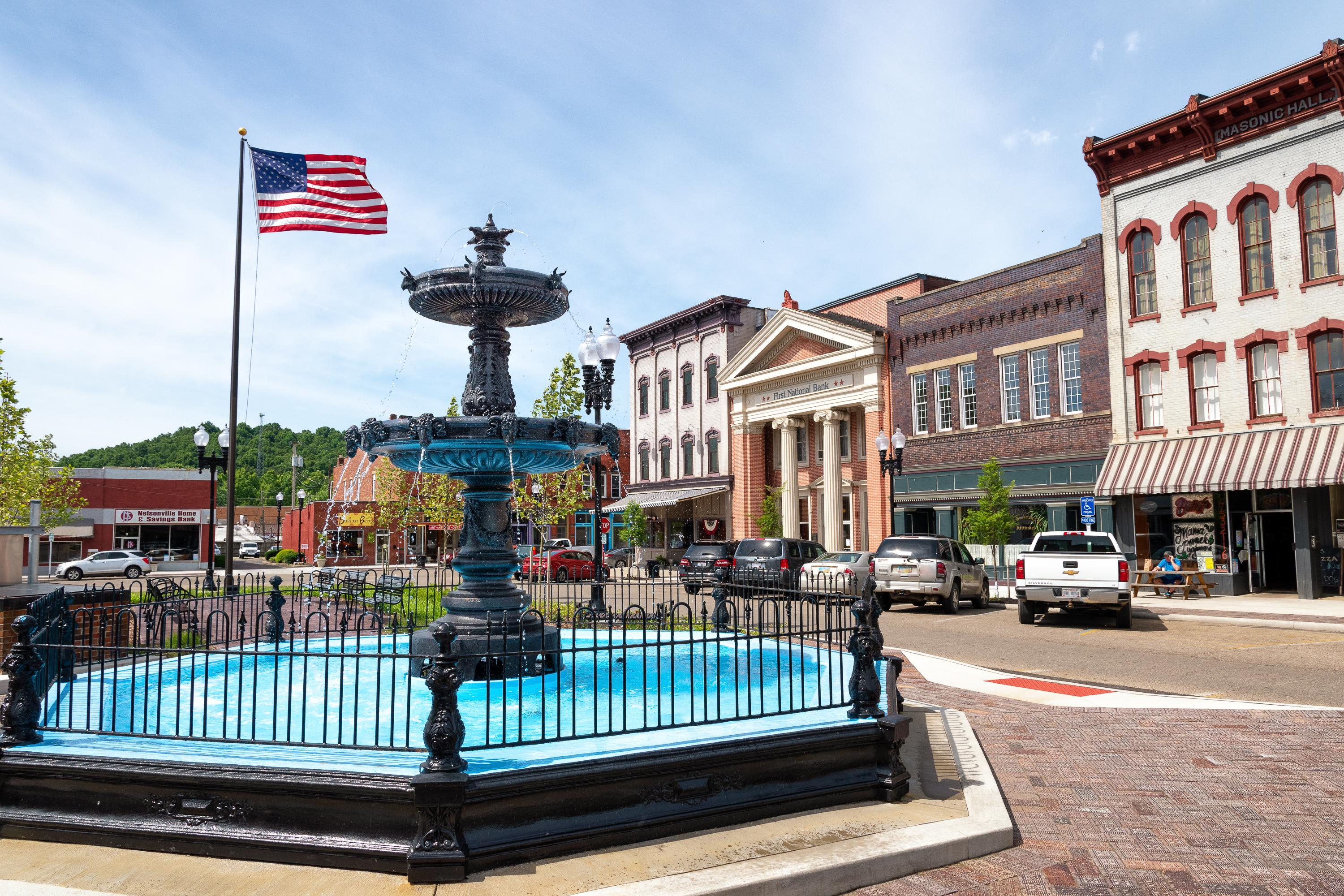 Downtown Nelsonville